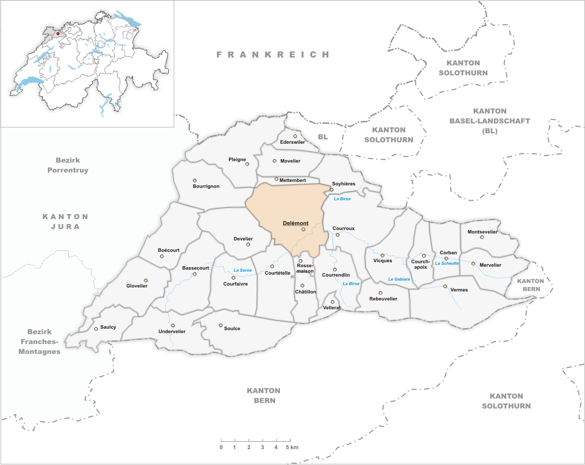 Municipality Delémont